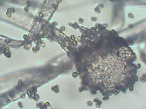 Zarodnia